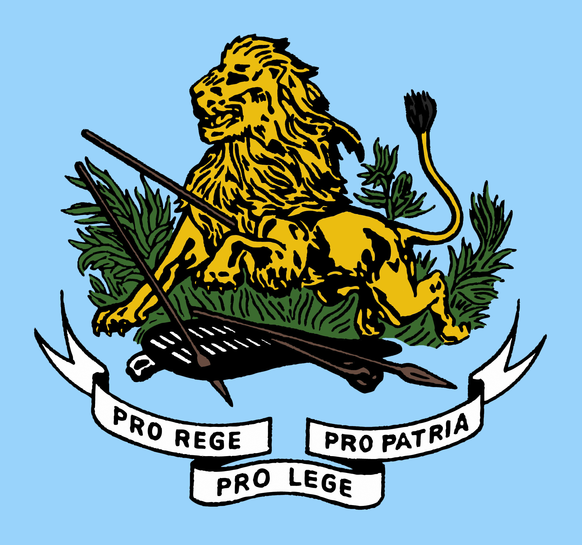 The insignia of the British South African Police